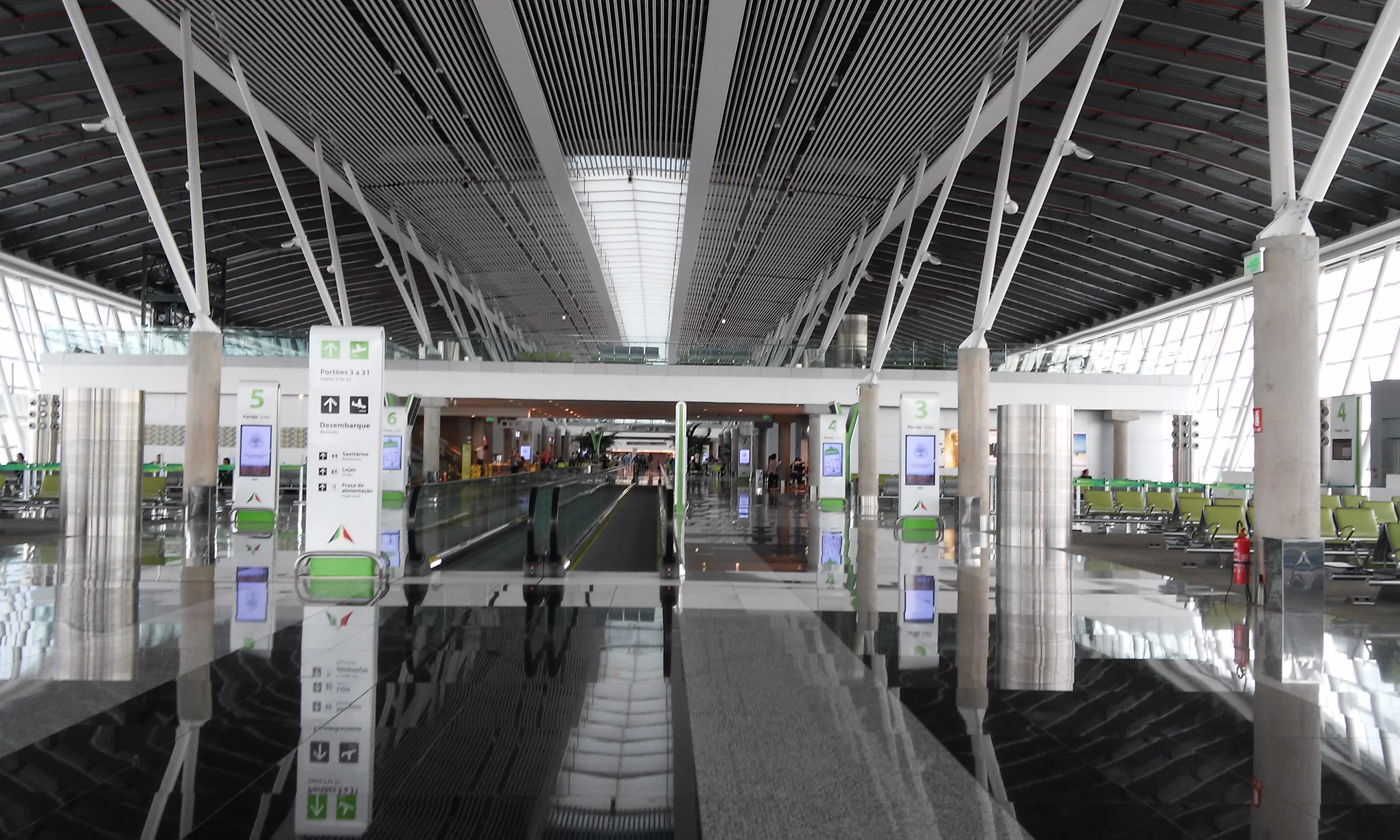 Pier North Brasilia International Airport